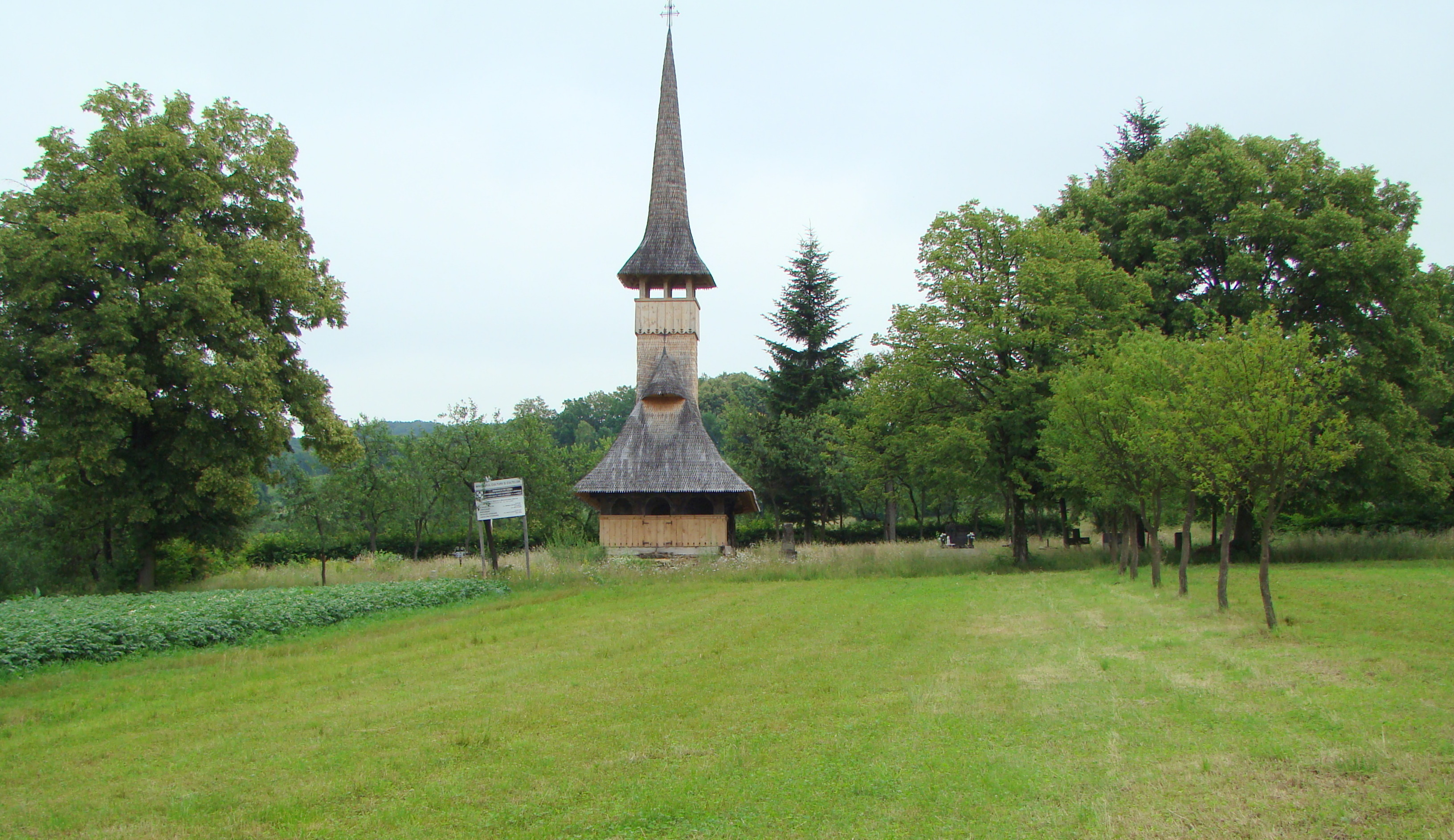 Wooden church in Cărpiniș, Maramureș county, Romania